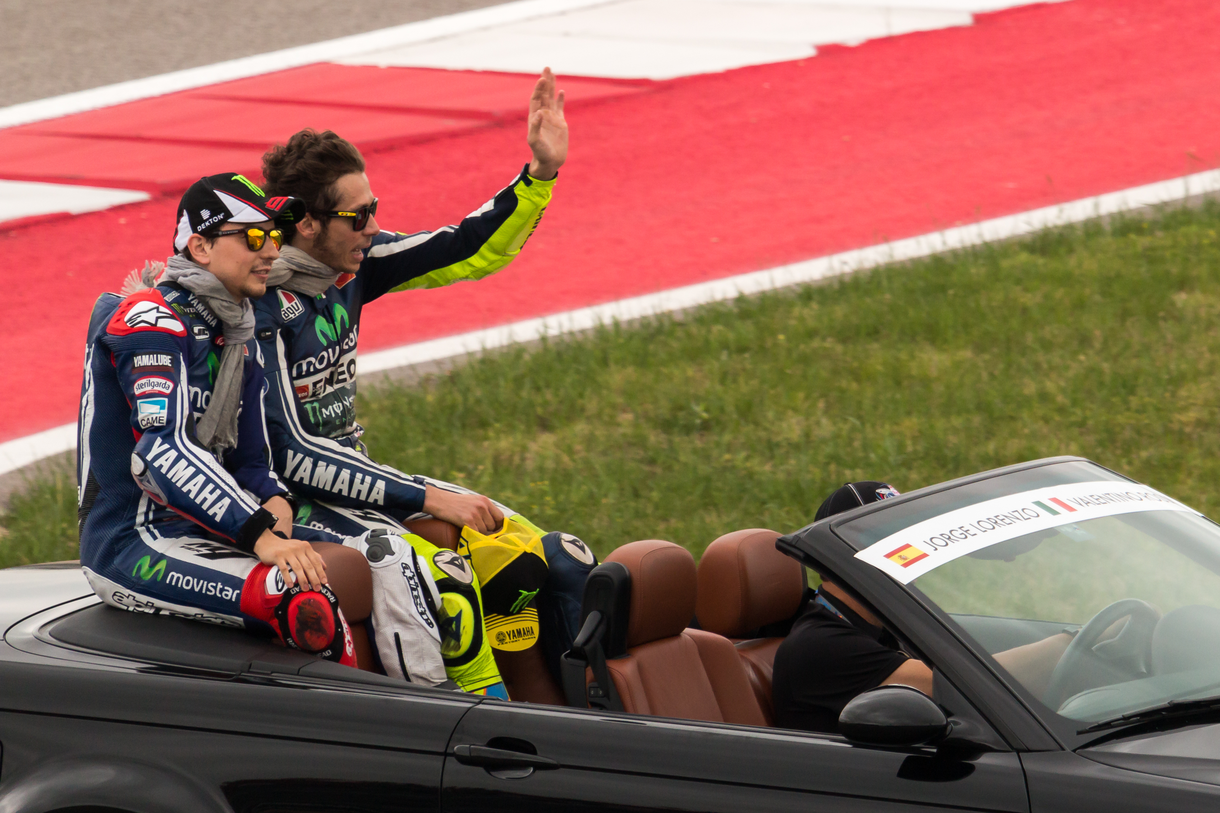 Jorge Lorenzo (left) and Valentino Rossi (right), 2014 Motorcycle Grand Prix of the Americas.